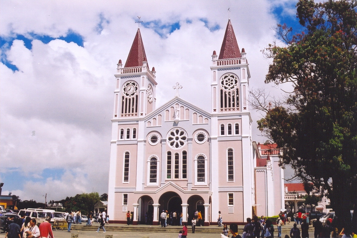 The Baguio Cathedral picture taken by Magalhães in 2003